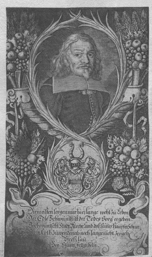 Portrait of David von Schweinitz (1600-1667), copper engraving, 151x87 mm